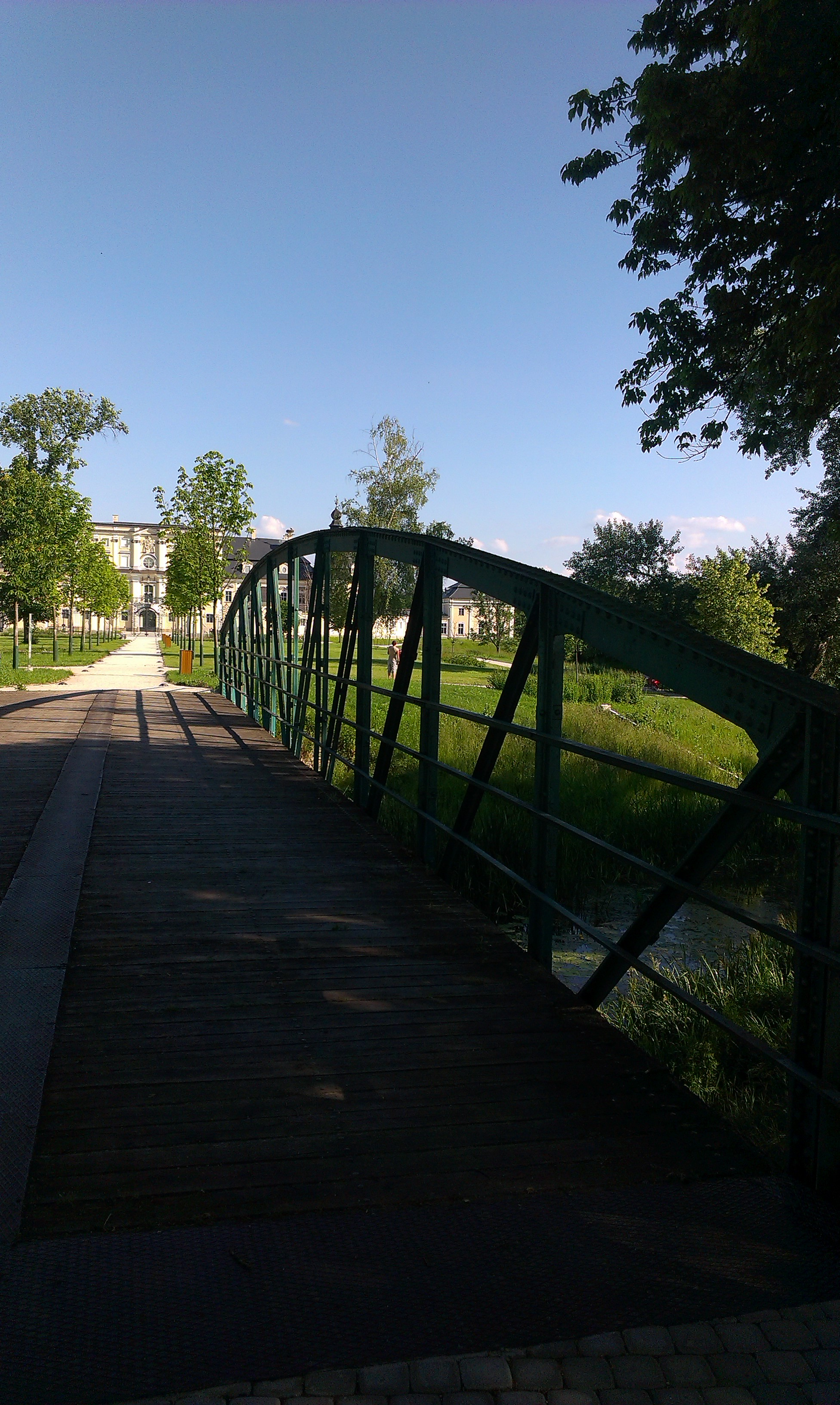 The bridge above the frog lake which connects the street and the so called Castle Island in Edelény, Hungary.